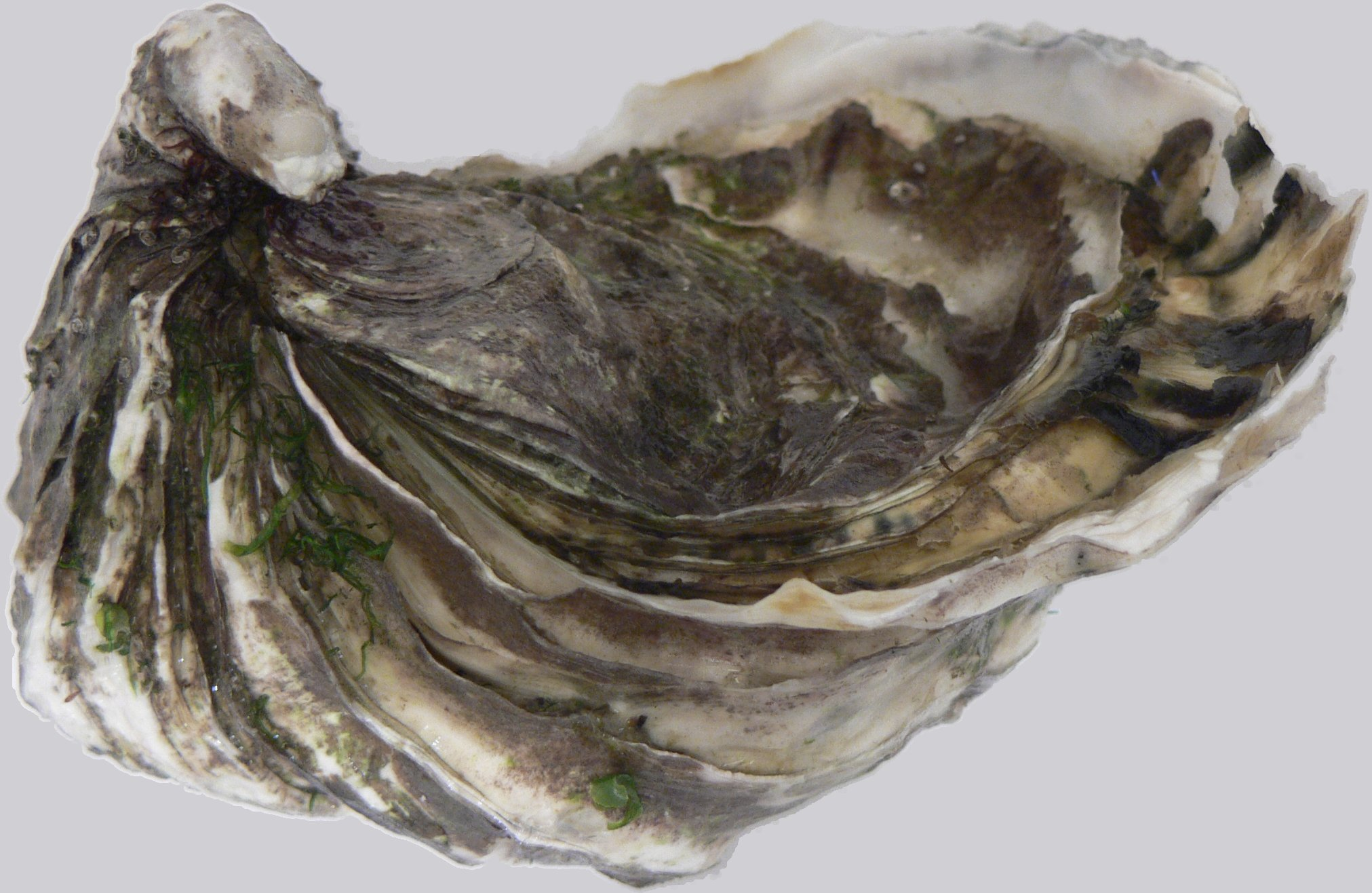 Oyster from Marennes-Oléron